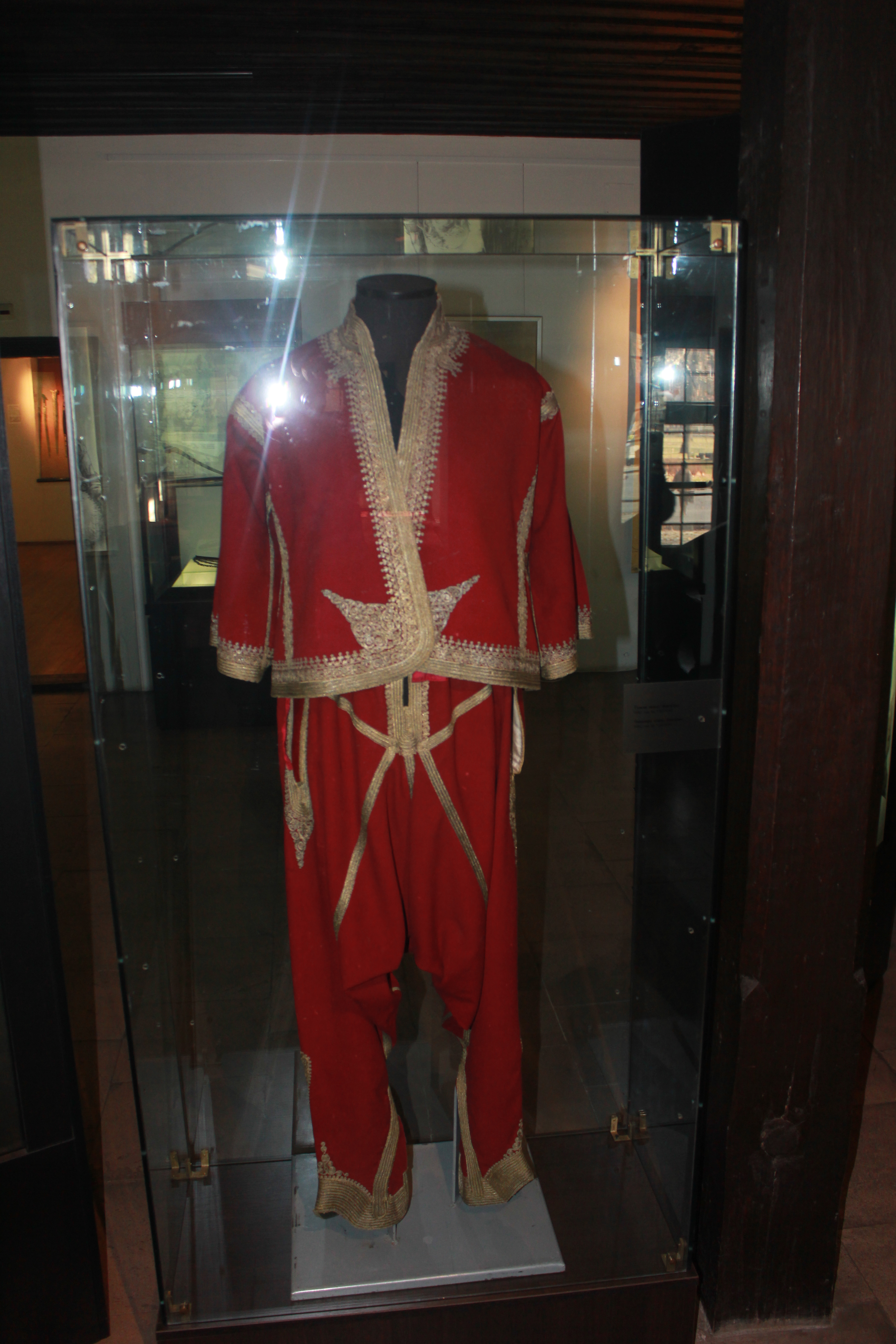 Miloš Obrenović outfit from time of battle of Ljubić